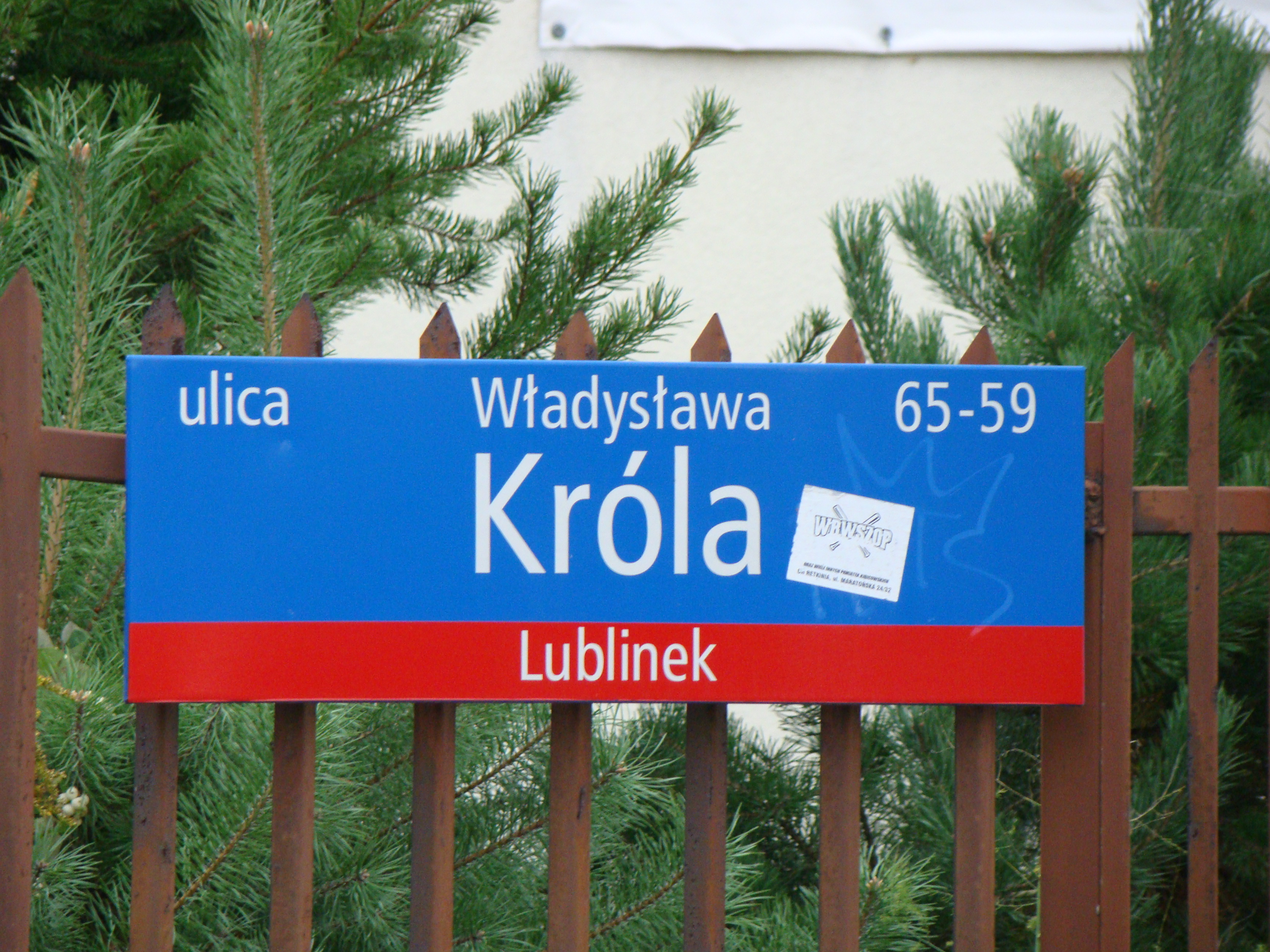 Króla Street in Łódź